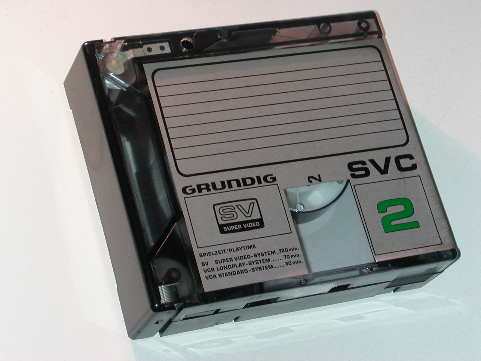 Grundig SVR-compatible video cassette from 1978. As a variant of the Philips' "VCR" format, this cassette is backwards compatible and shows running times for SVR, VCR-LP and standard VCR format machines.